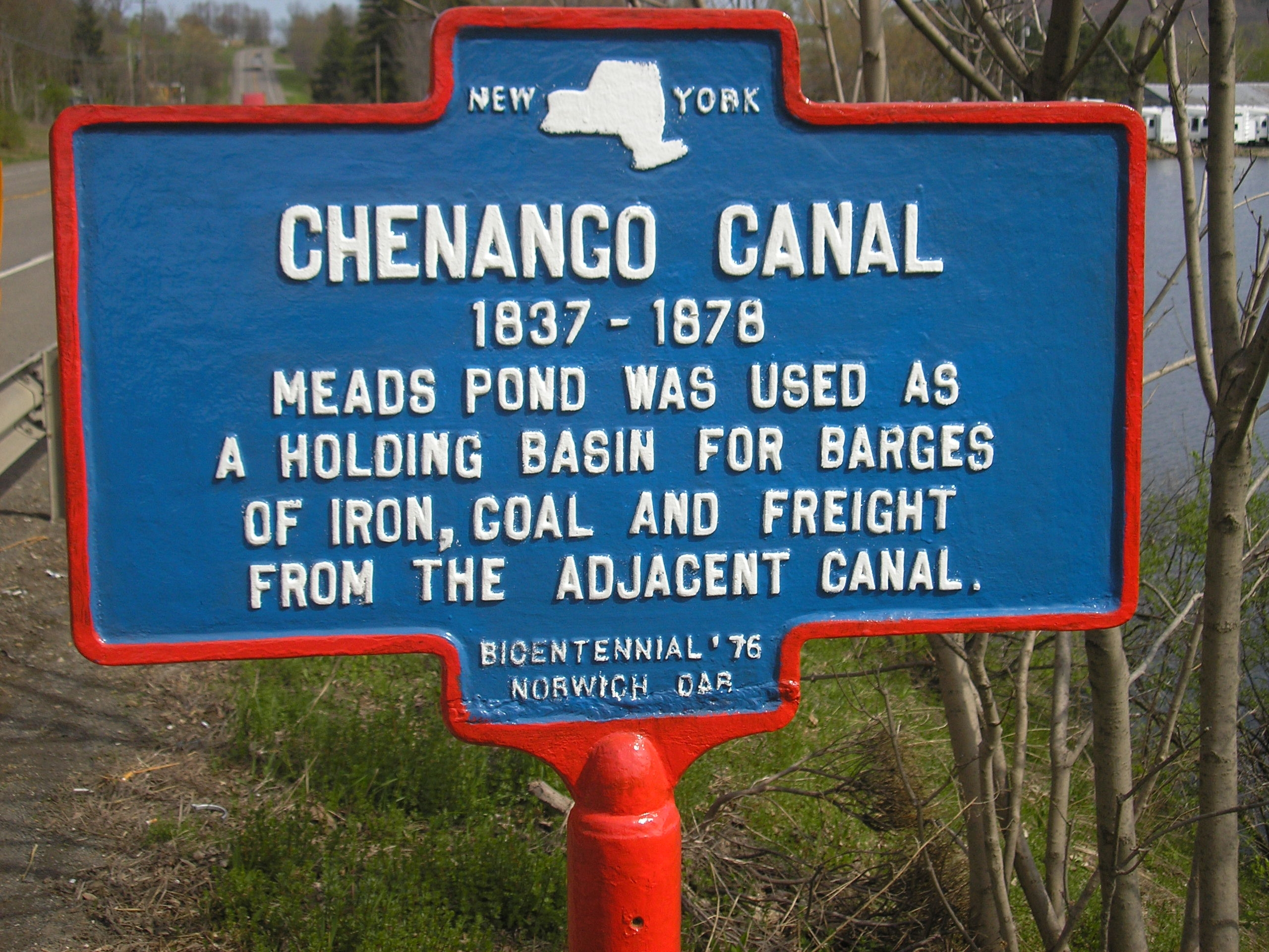 Historic marker, Aqueduct over Fly Creek, North Norwich, NY